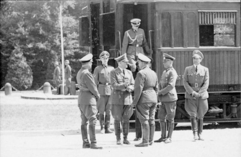 21 June 1940, Hitler speaks with high-ranked Nazis and Generals before the 1918 Wagon de l'Armistice in the Compiègne forest, before launching the negotiations of the 1940 Armistice, which will be signed the next day.